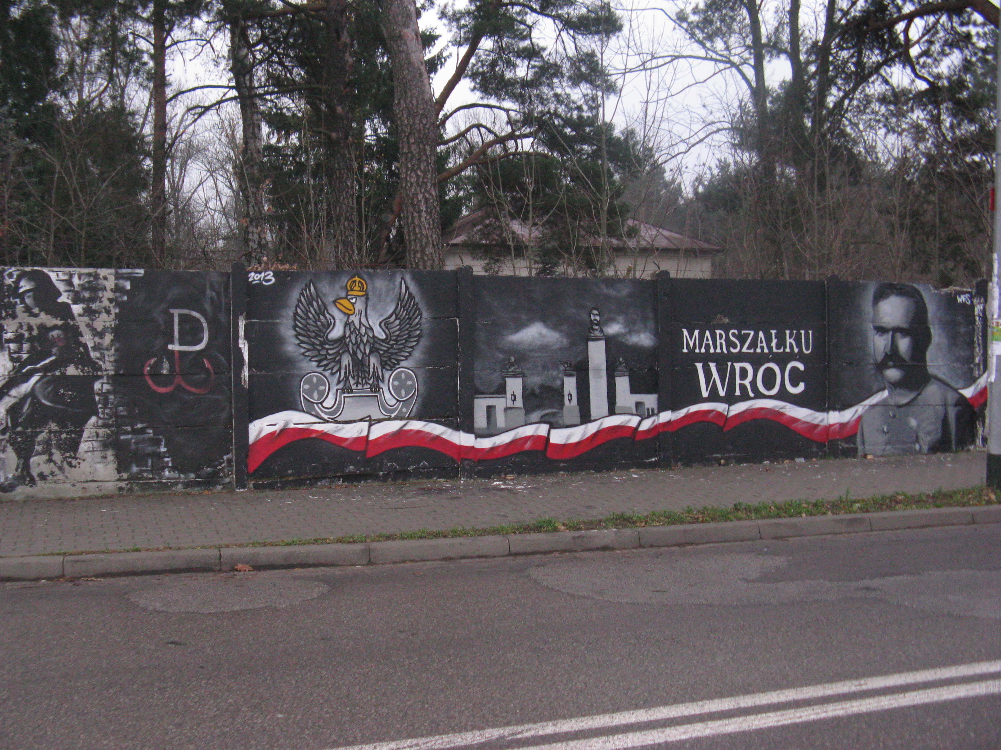 Murał upamiętniający Józefa Piłsudskiego na murach Akademii Obrony Narodowej.